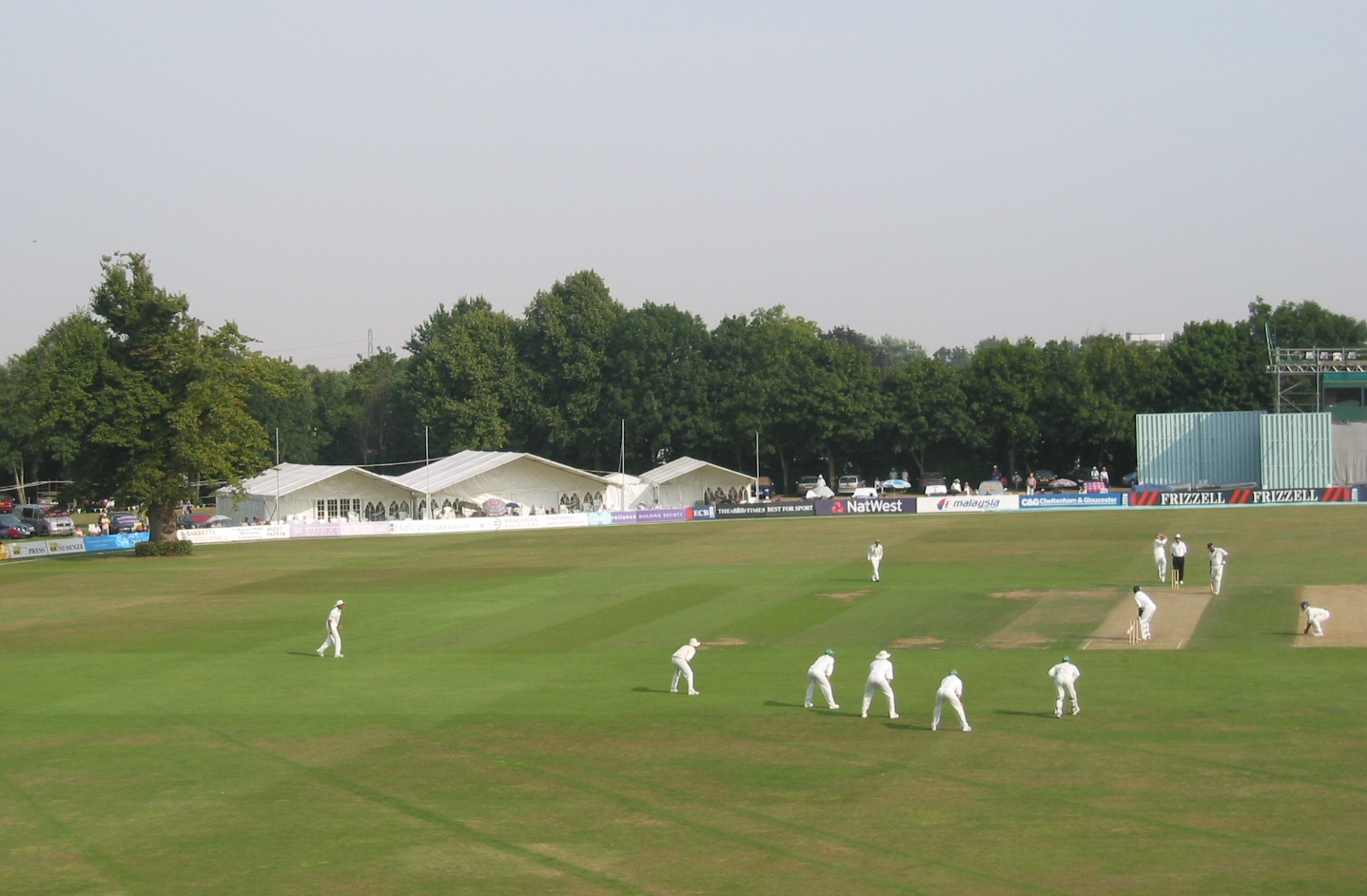 St Lawrence Ground, Canterbury, UK. If the EXIF data is correct, this is after tea on 7 August 2003, the first day of a tour match in which Kent played the South Africans. The old lime tree inside the boundary is clearly visible.